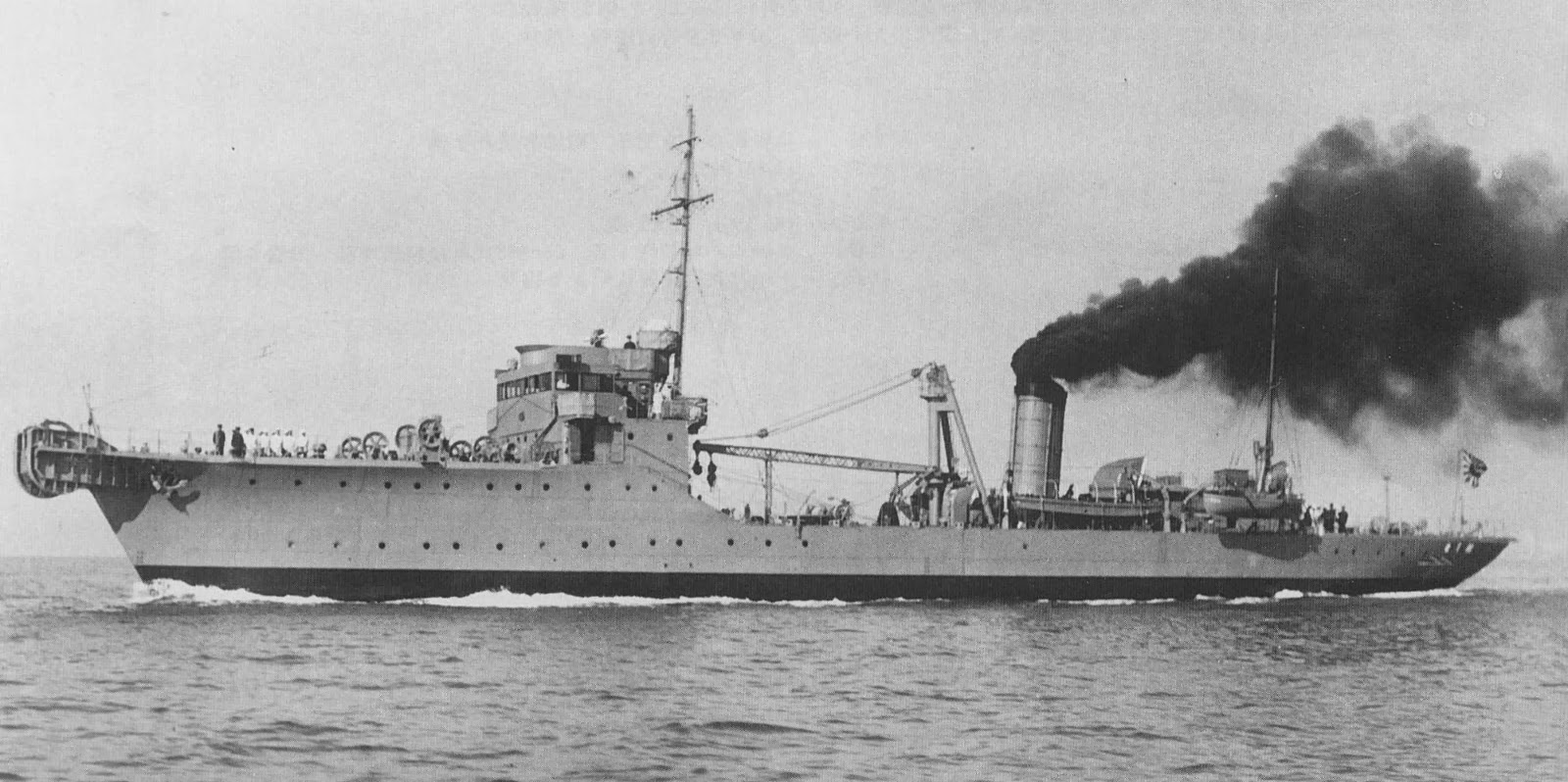 IJN cable layer HASHIMA off Kobe.